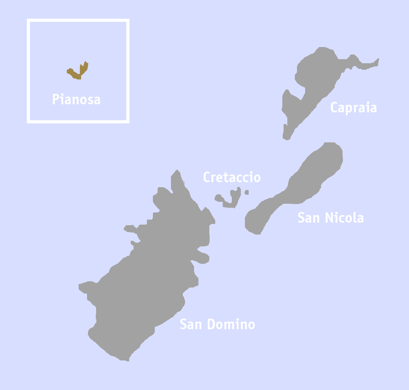 Map of the Isole Tremiti: Position of Pianosa map created by user:Idéfix